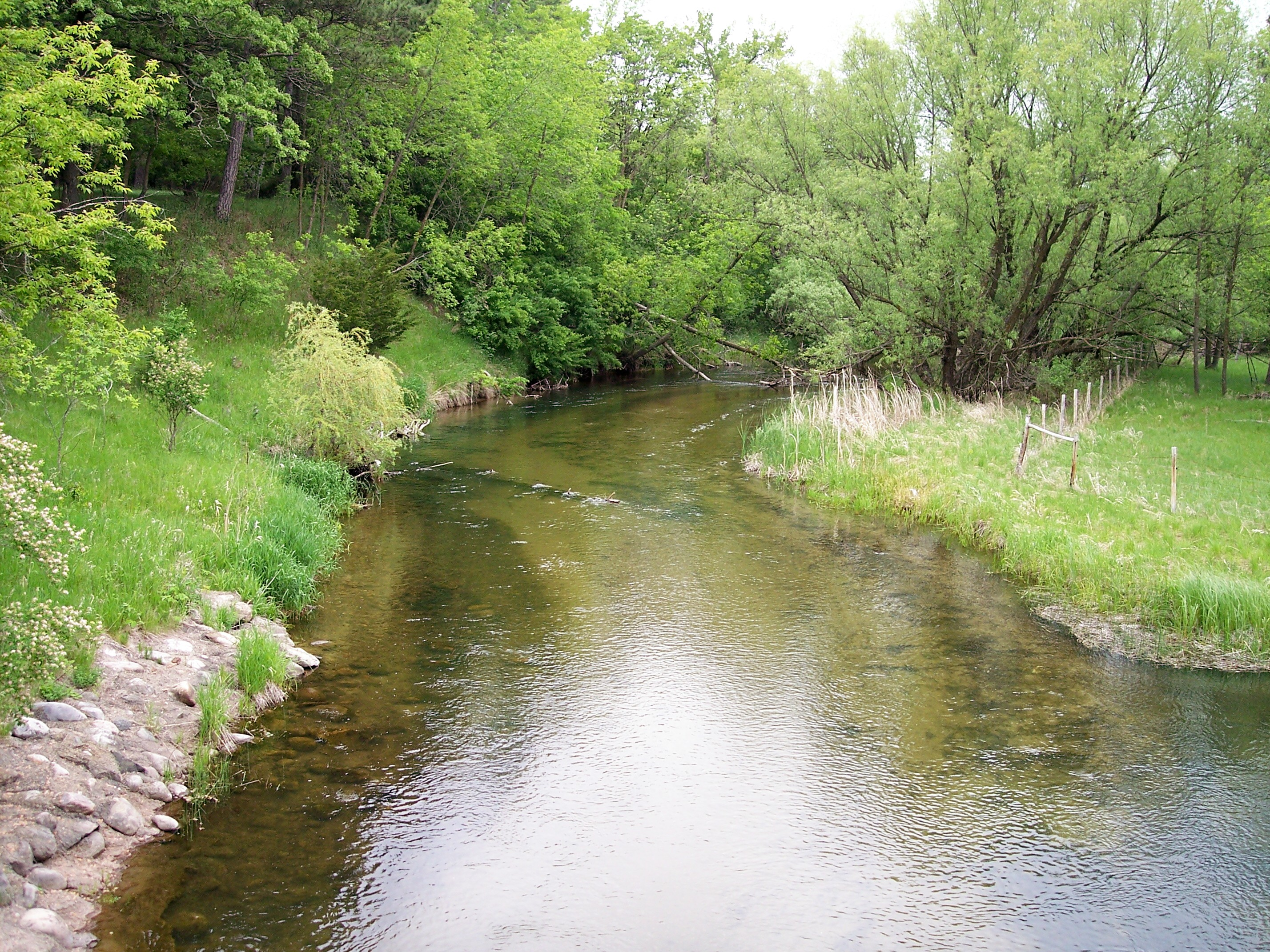 The Fish Hook River as viewed downstream from Fish Hook Avenue South in Park Rapids, Minnesota.